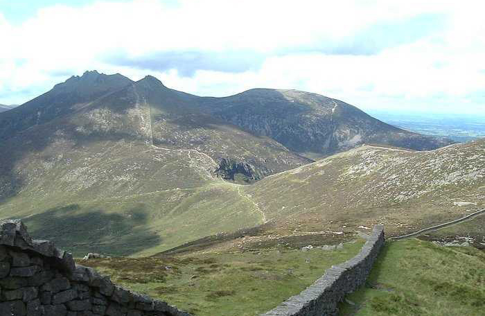 View of the mountains and mourne wall in Northern Ireland.